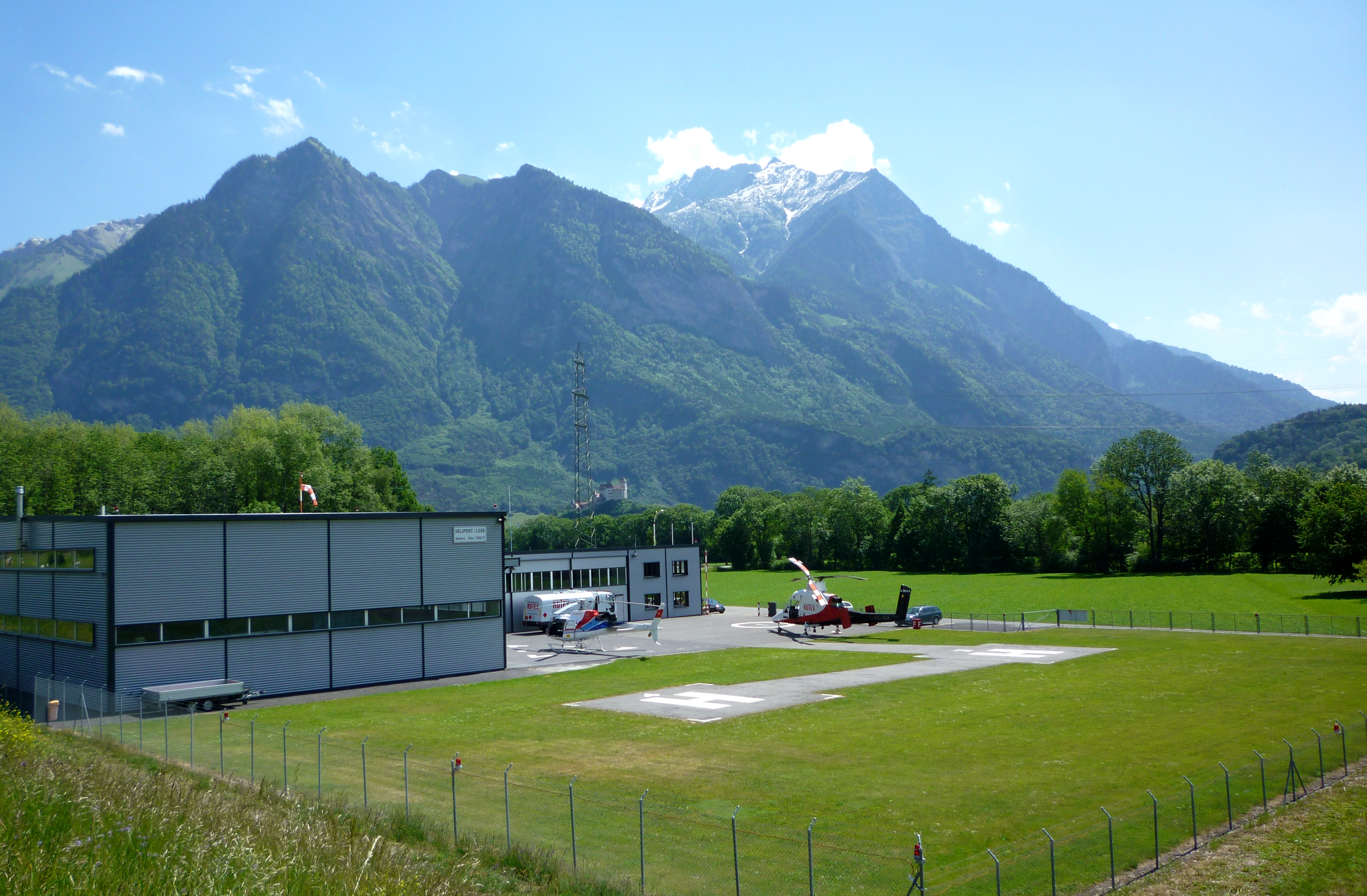 Heliport in Balzers, Liechtenstein. In the background the castle Gutenberg and Liechtenstein Alps